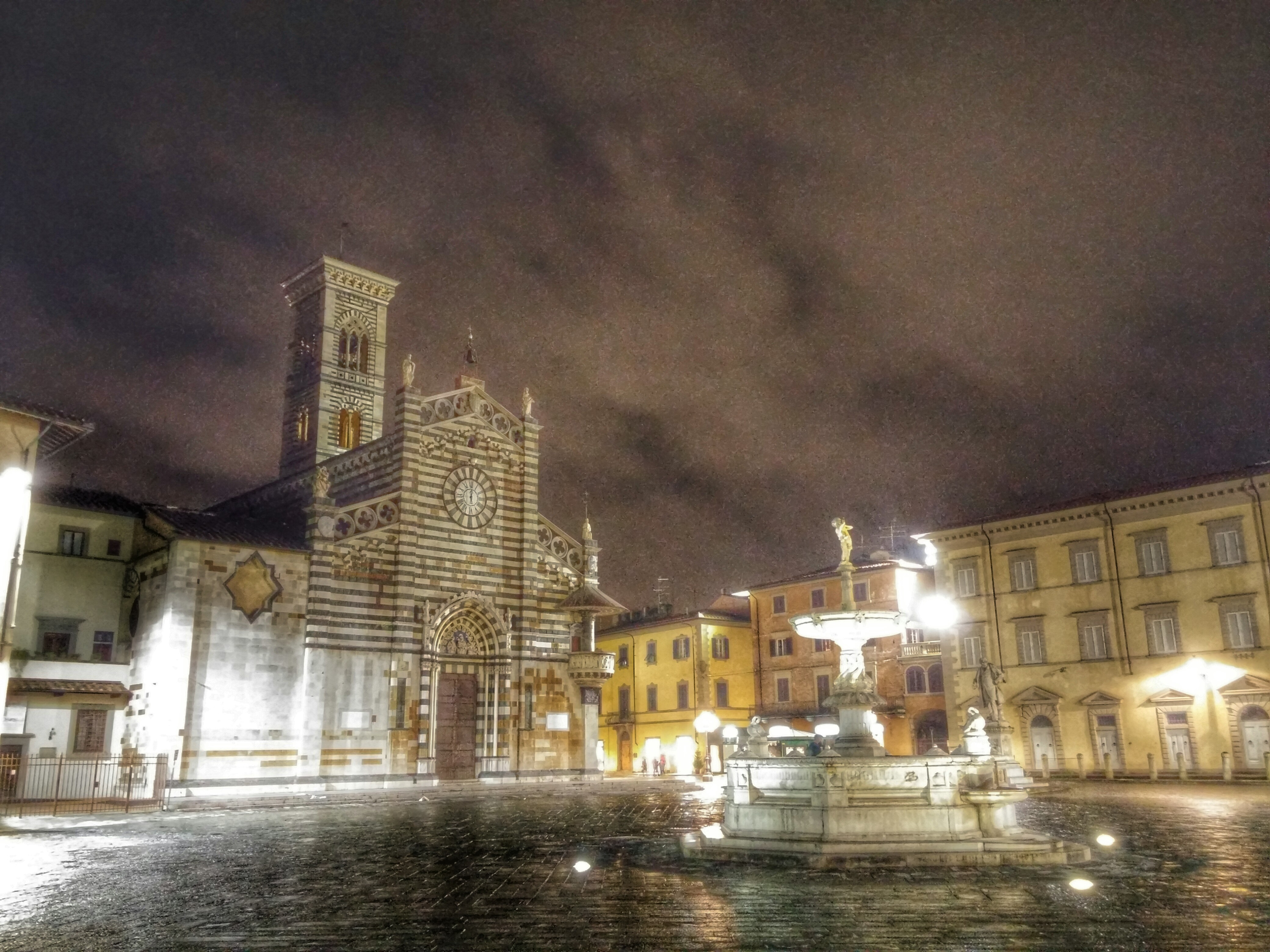 Piazza del Duomo in Prato, Tuscany